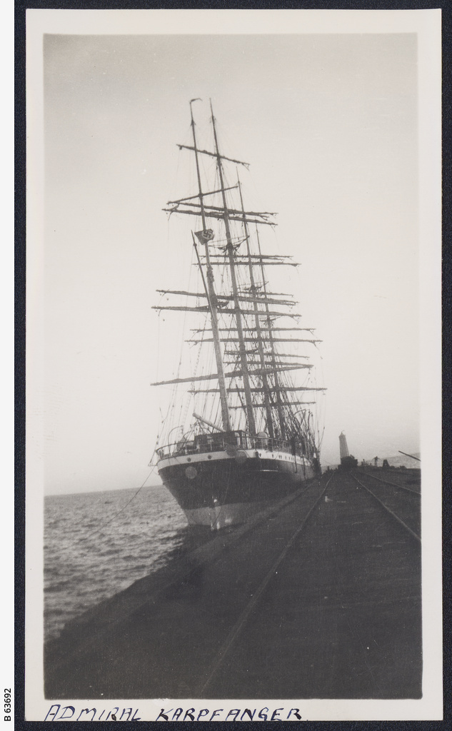 The windjammer 'Admiral Karpfanger' moored at Port Germein jetty in South Australia.